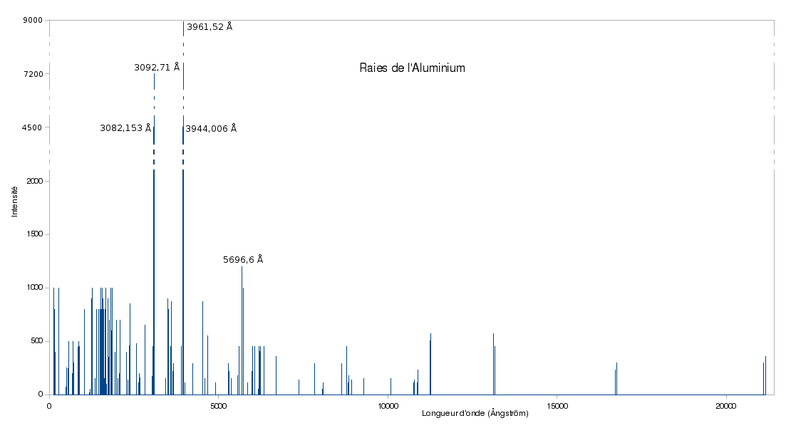 Raies d'émission de l'aluminium